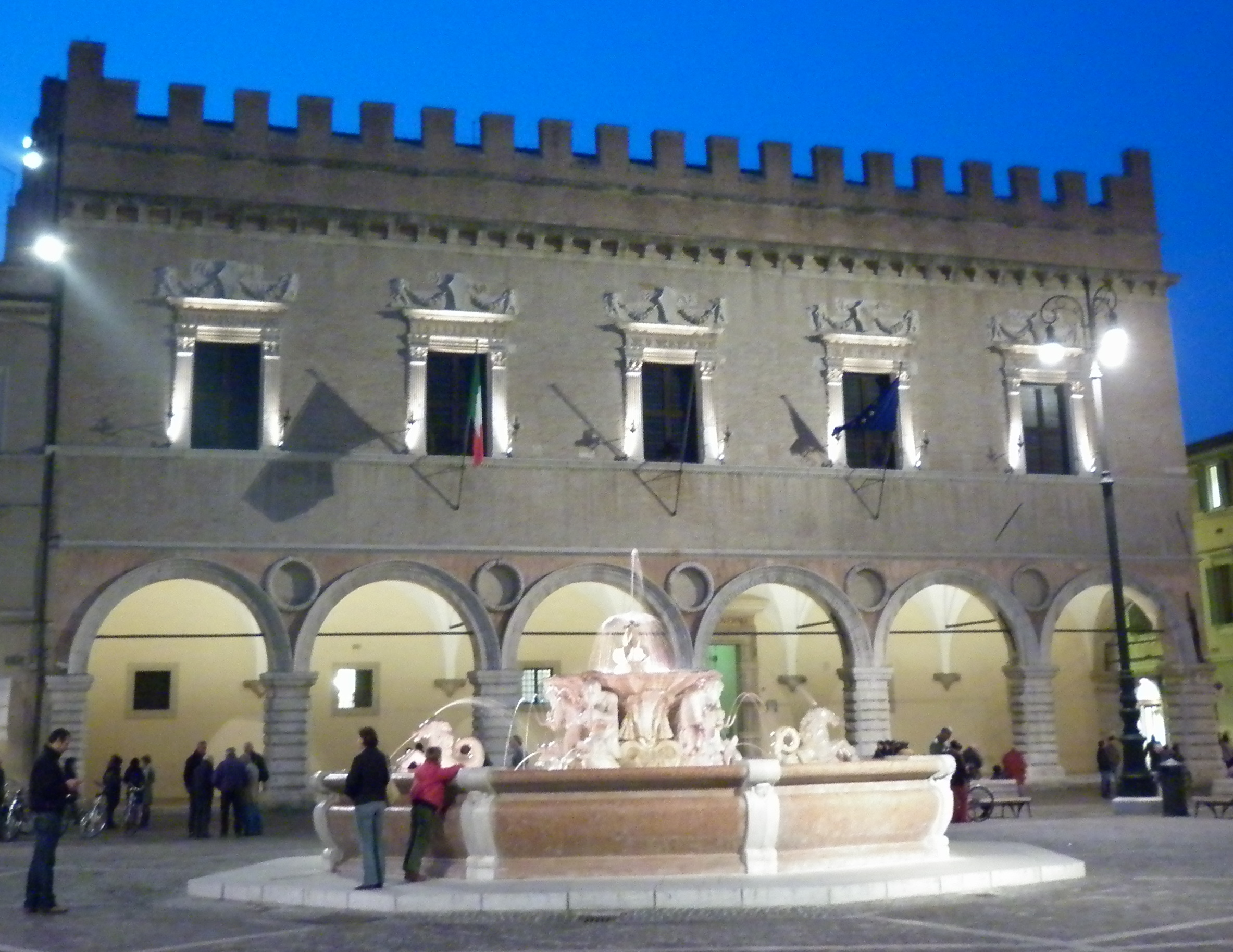 Palazzo Ducale by night